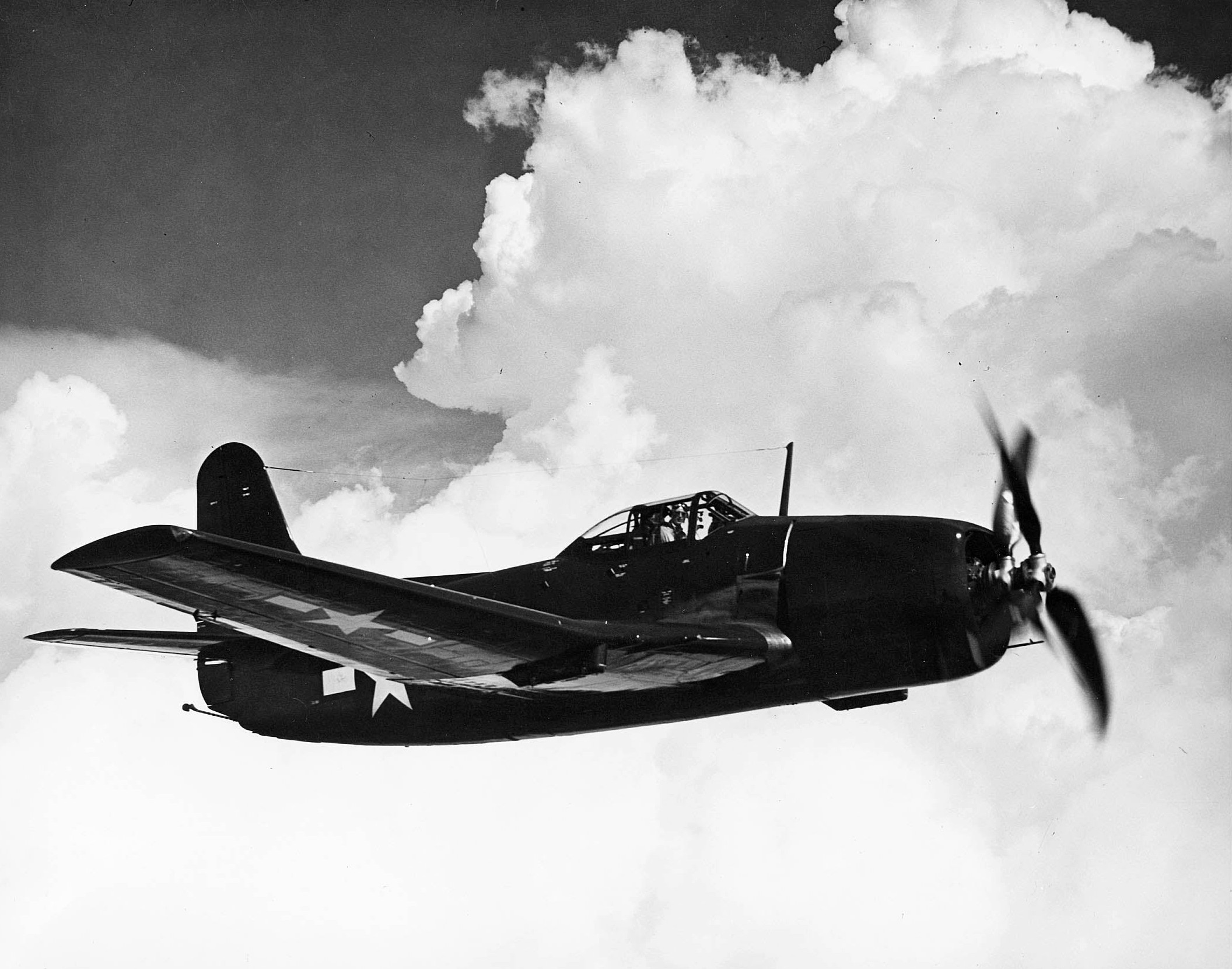 The Curtiss XBTC-2 "Model B" in flight. The "Model B" featured a full span Duplex flap wing with a straight trailing edge and a swept-back leading edge. It also had a 3,000 hp Pratt & Whitney XR-4360-8A equipped with contrarotating propellers.